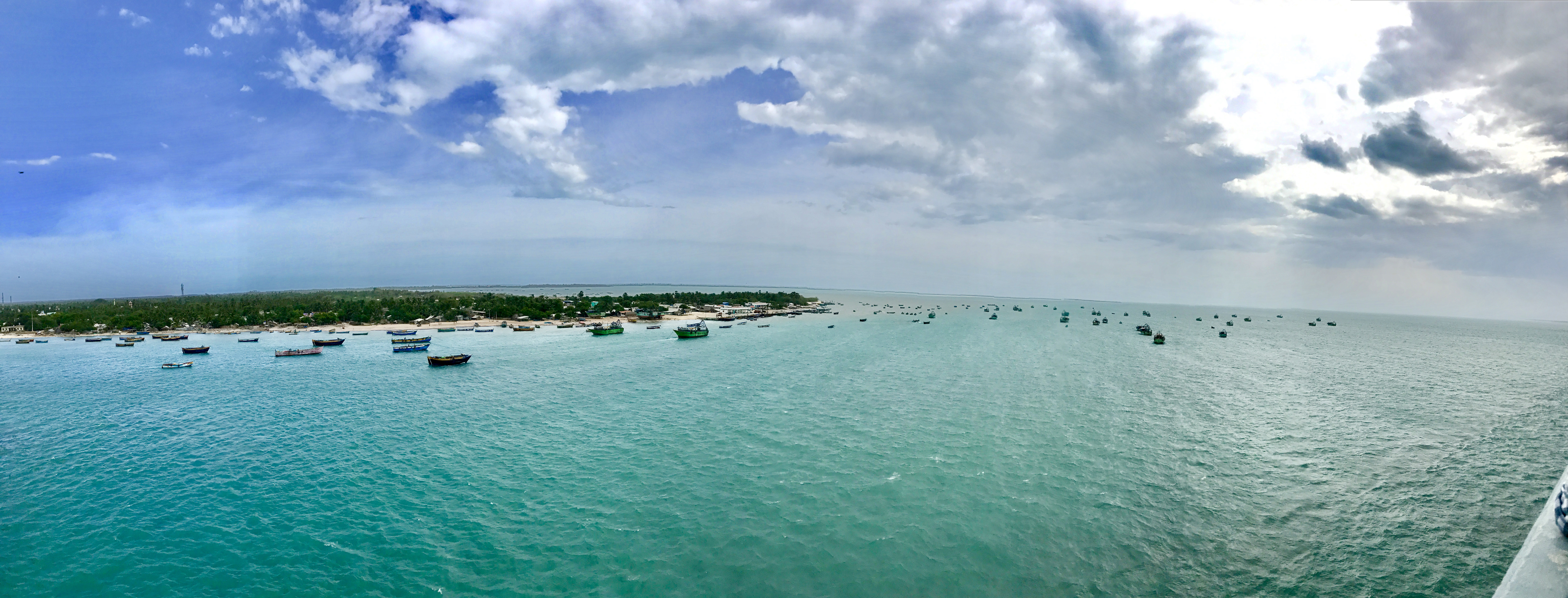 Panorama of Bay of Bengal near Rameswaram